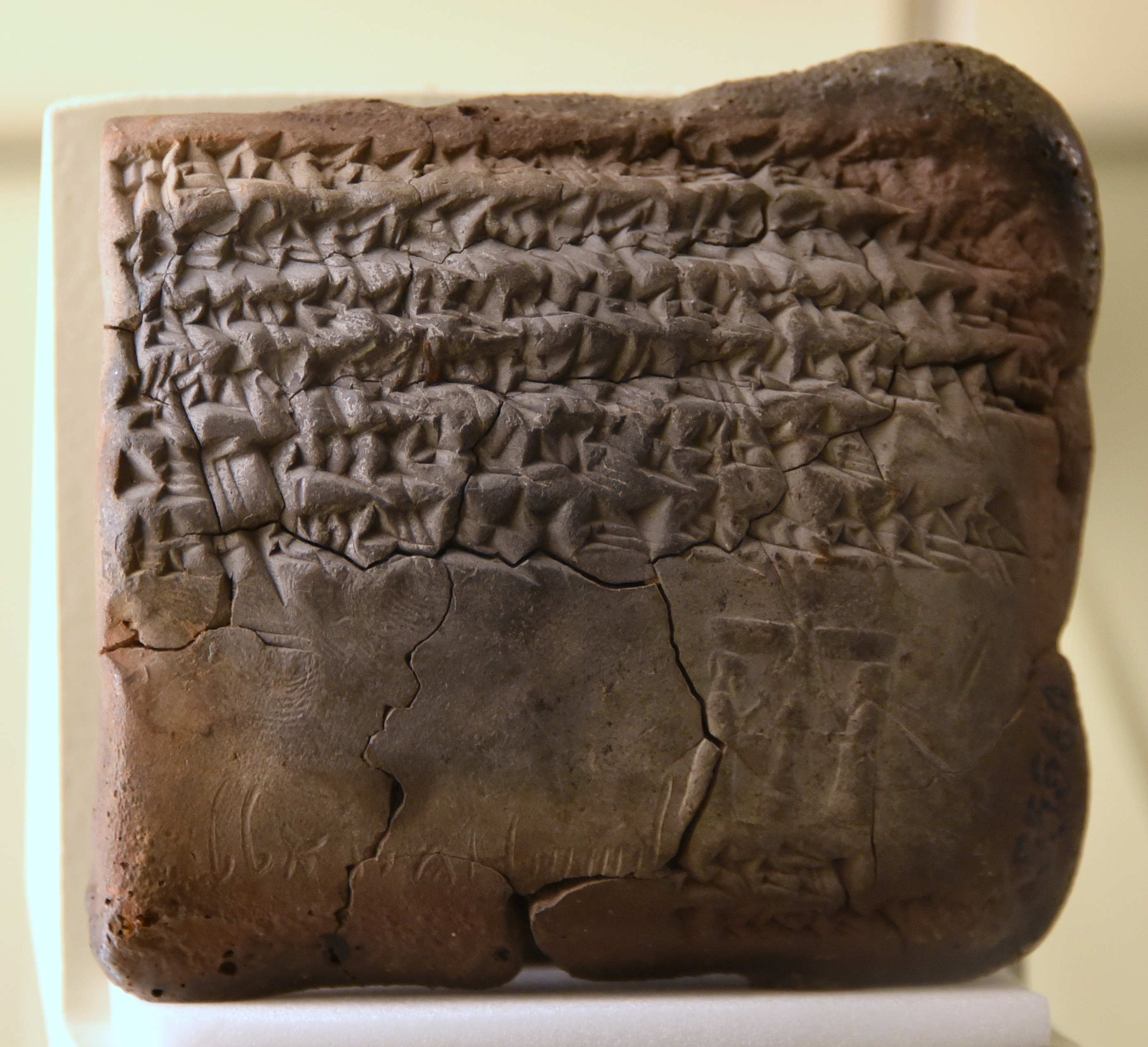 The clay tablet of Belshunu, governor of Babylon. Sale of property; cuneiform & Aramaic inscriptions, stamped by a scene (2 men flanking a stepped altar with fire below Ahura Mazda. From Babylon (from the so-called Kasr archive of Babylon), Iraq. 7th-year reign of the Achaemenid king Darius II, c. 414 BCE. On display at the Pergamon Museum, Germany